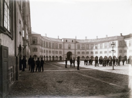 Students from the officer's academy at Frederiksberg Slot in Copenhagen, Denmark